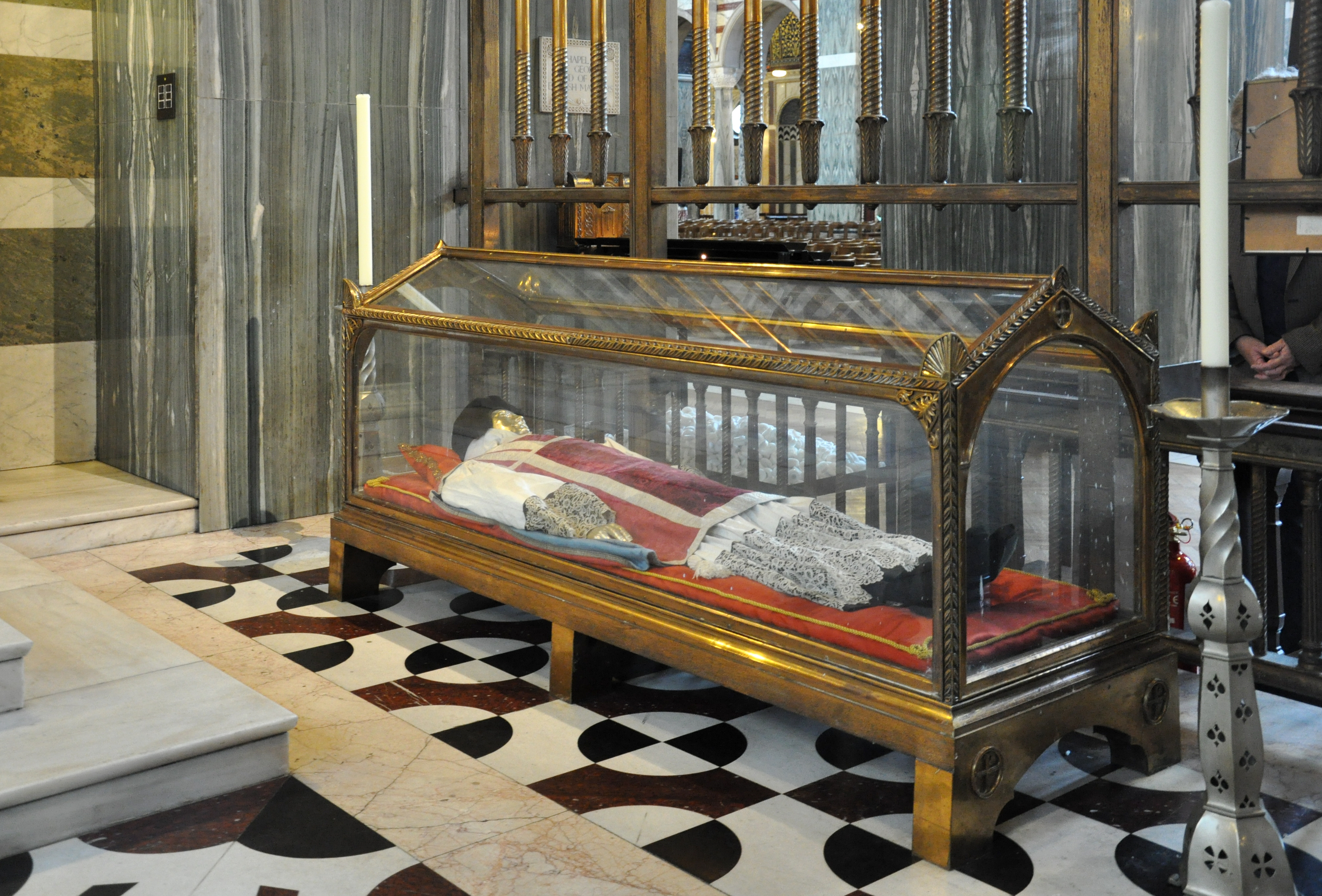 London, Westminster Cathedral, Reliquary of Saint John Southworth